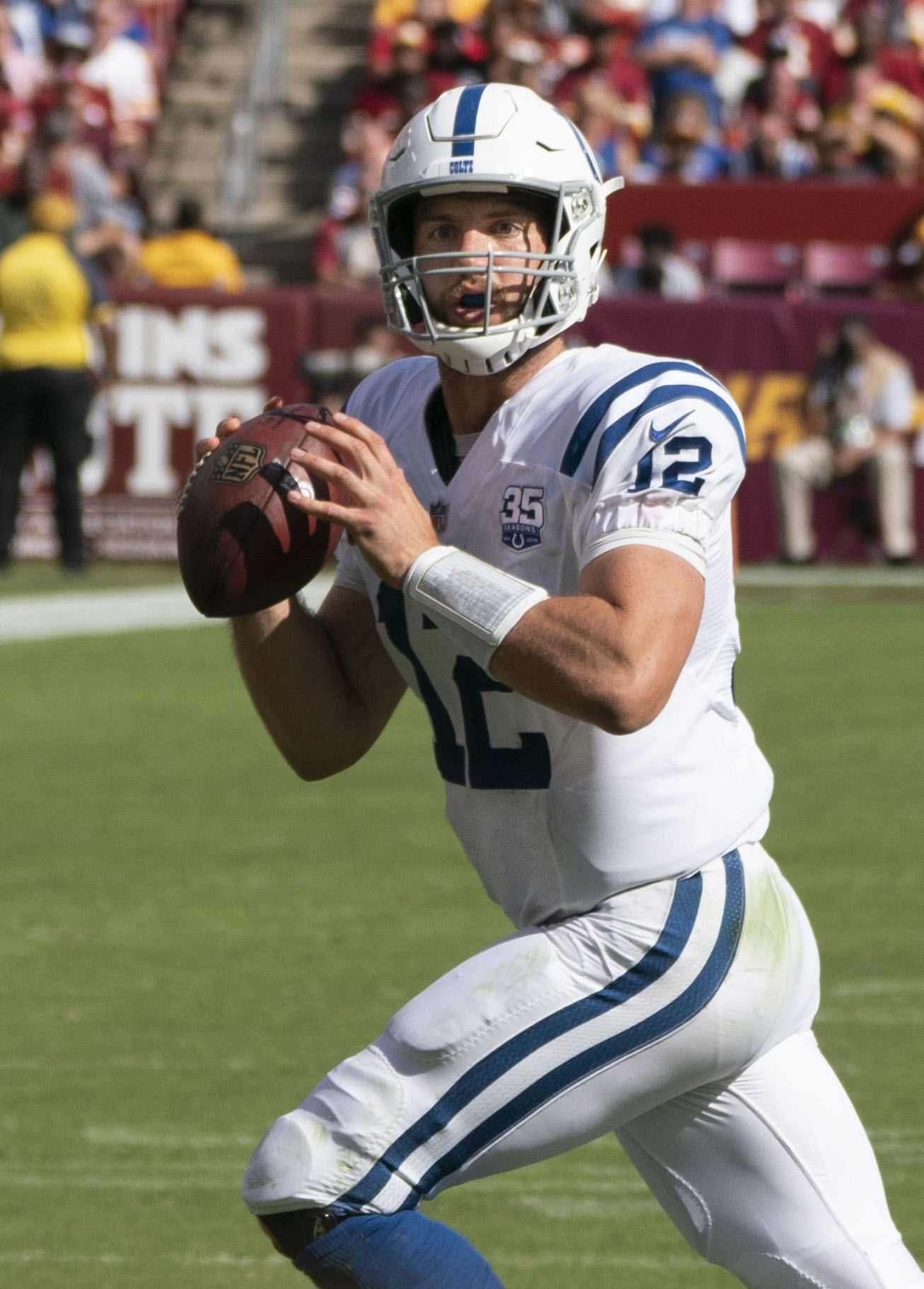 Andrew Luck of the Indianapolis Colts during a game against the Washington Redskins at FedExField on September 16, 2018 in Landover, Maryland.